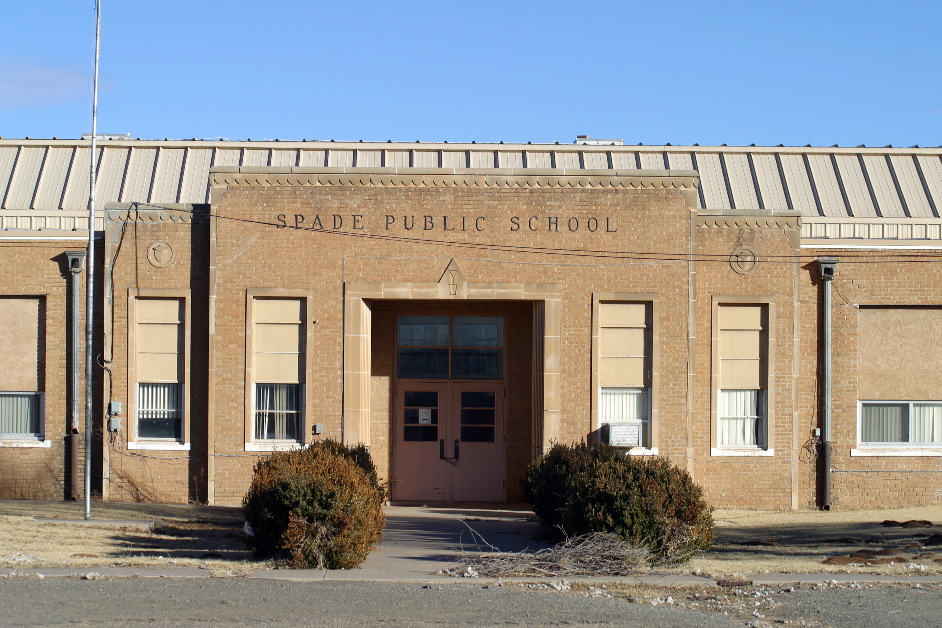 Spade Public School in Spade, Texas in the agricultural region of Lamb County. Note the small spade carved into the stone above the door.